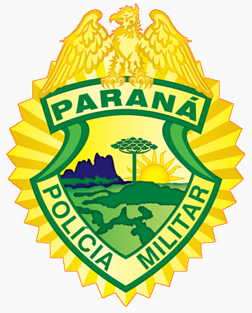 Badge of Military Police of Paraná - Brazil.